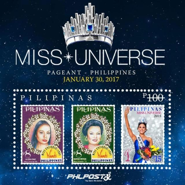 MISS UNIVERSE PAGEANT 2017